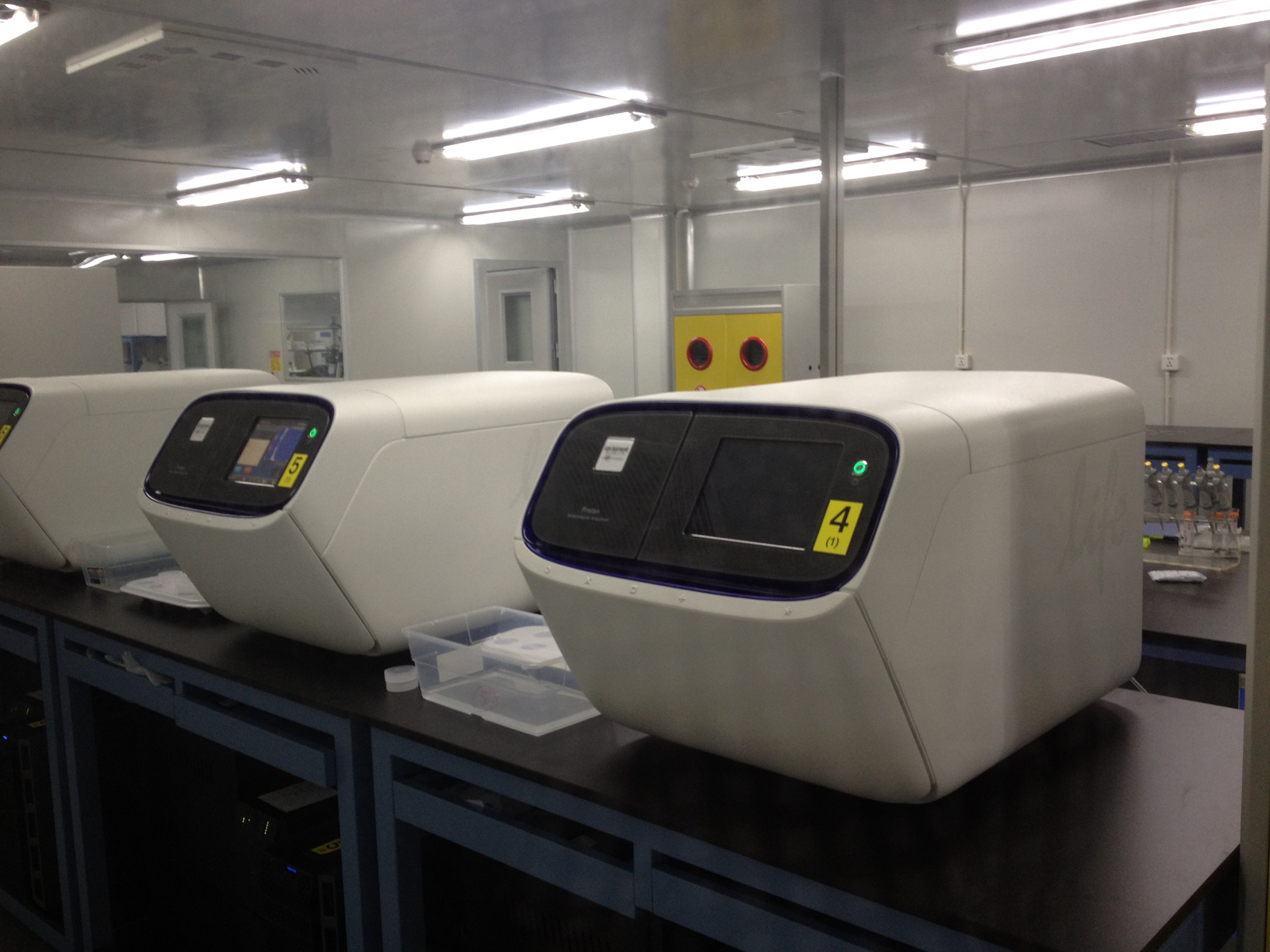 Ion Proton sequencers at BGI Shenzhen in China.